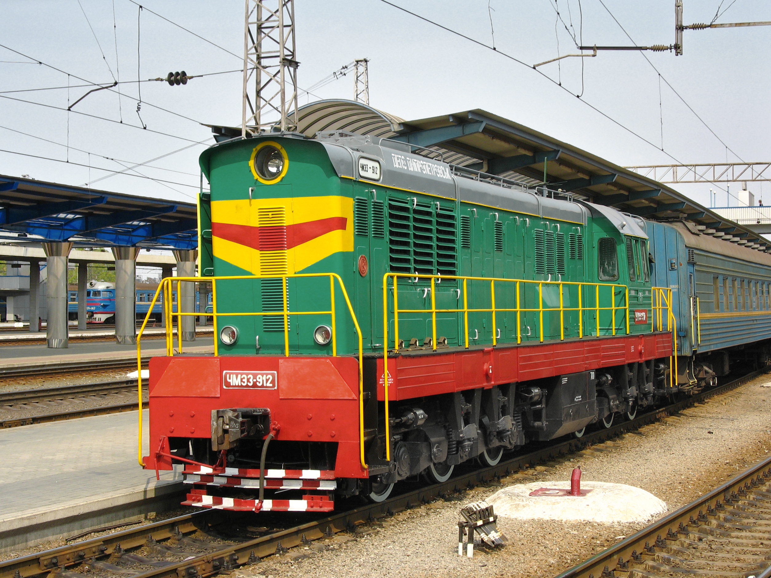 Тhe ЧМЭ3 (ChME3,ČME3) is a Czech diesel-electric switcher built by ČKD for railway system of the Soviet Union.